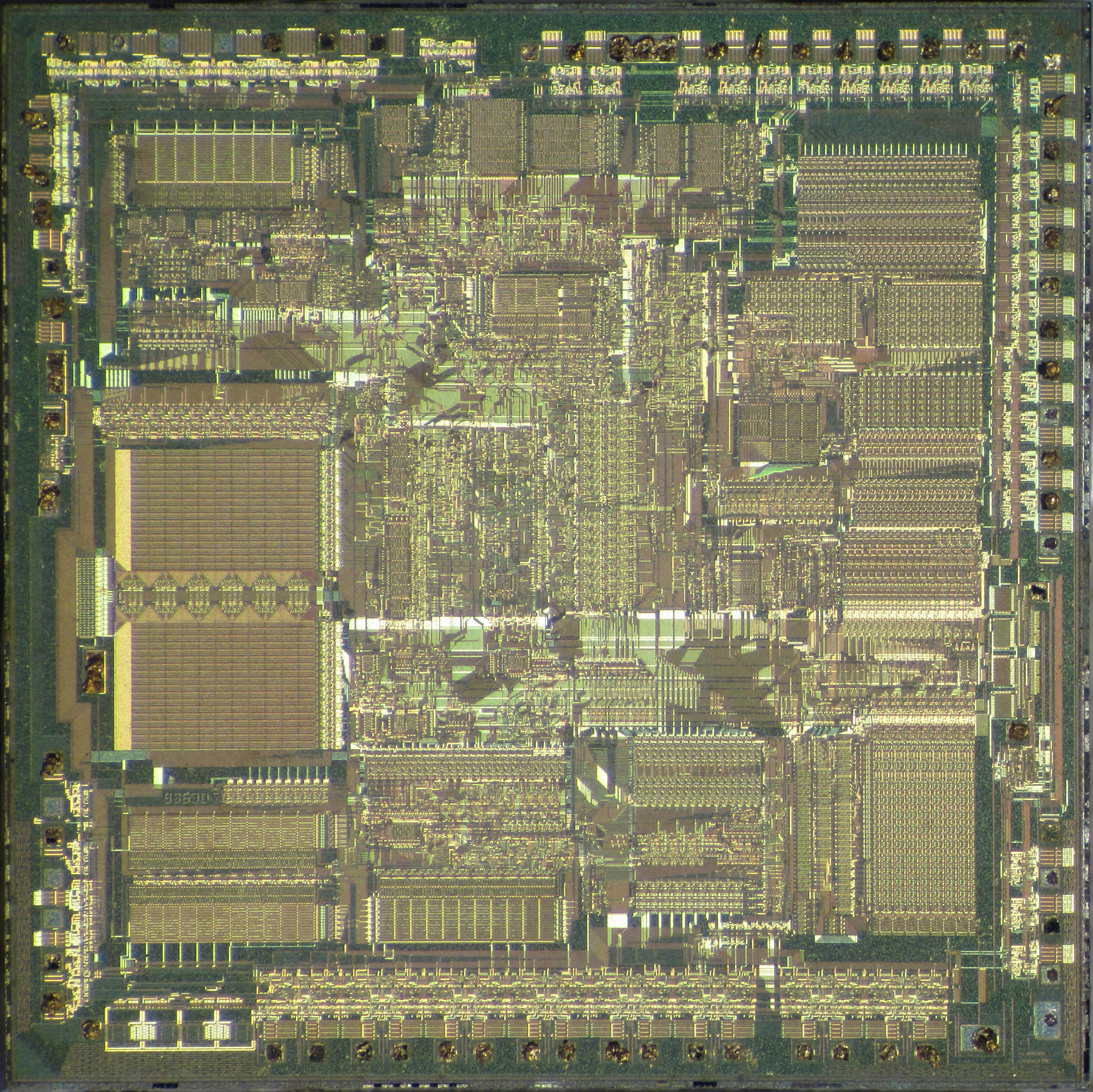 Die shot of AMD Am286 microprocessor (Am80L286-12).